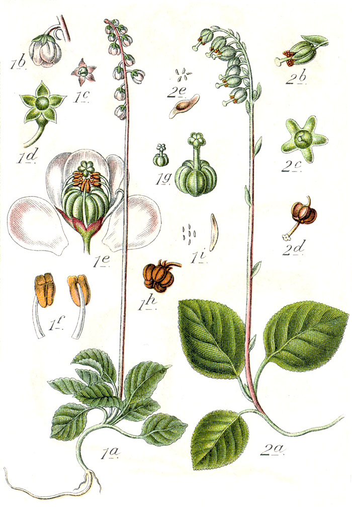 1. Pyrola minor L. 2. Orthilia secunda (L.) House, syn. Pyrola secunda L. Original Caption 1. Kleines Wintergrün, Pirola minor 2. Ramischie, P. secunda